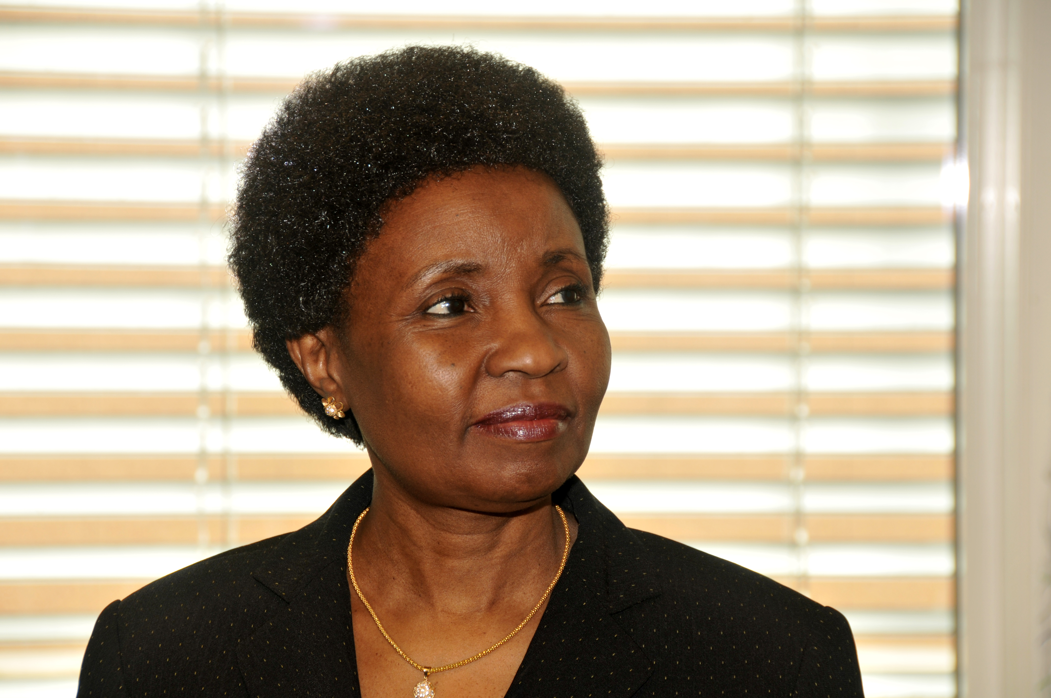 Deputy Secretary General of the UN, Asha-Rose Migiro.